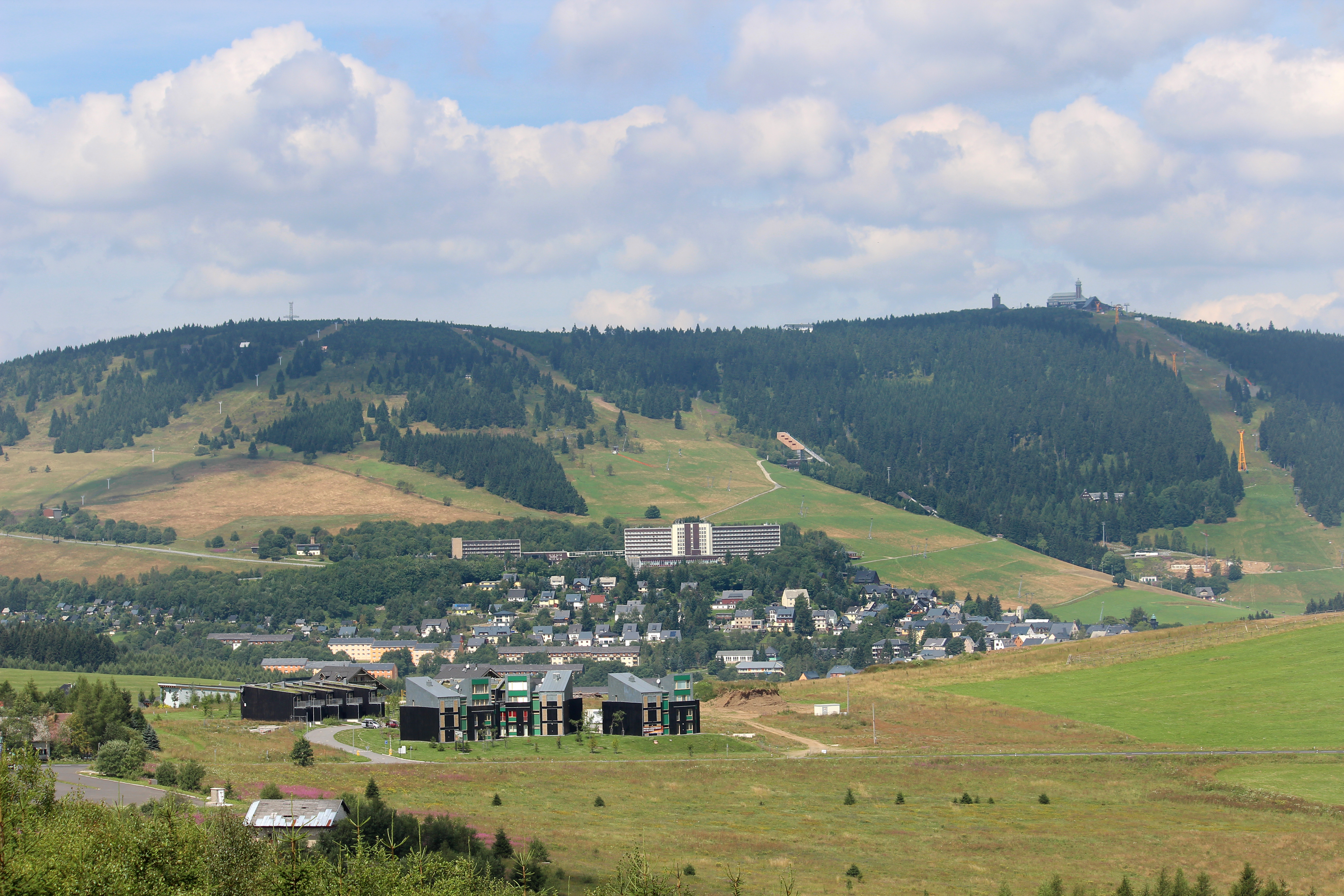 Loučná pod Klínovcem, Czech Republic, and Oberwiesenthal, Germany.